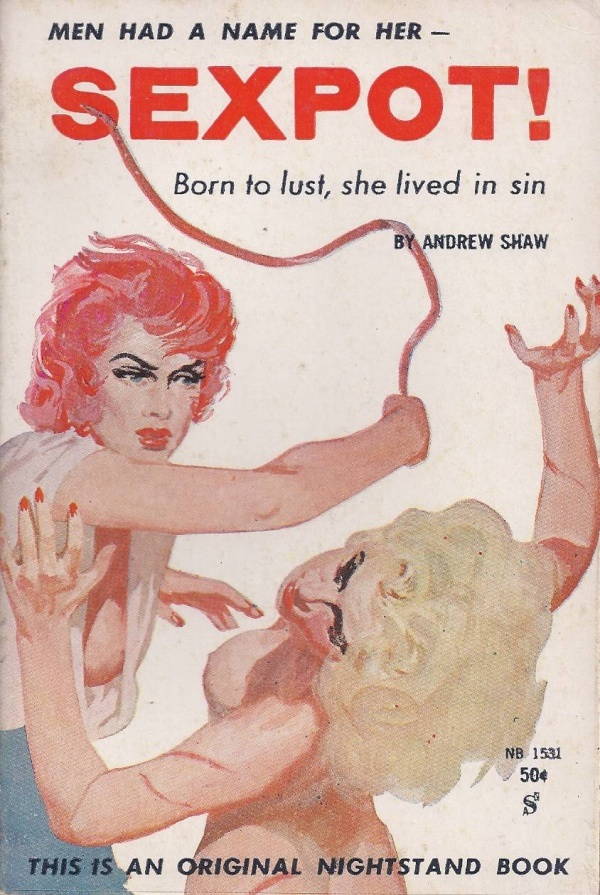 Cover of "Sexpot!" by Andrew Shaw (Lawrence Block). Illustration by Harold W. McCauley.